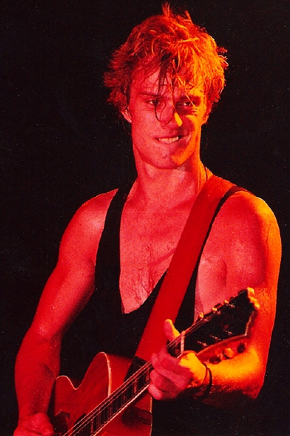 Tommy Conwell taken at the The Stone Balloon in Newark, DE Photo taken with a Canon A-1 Camera. No other photography details available.